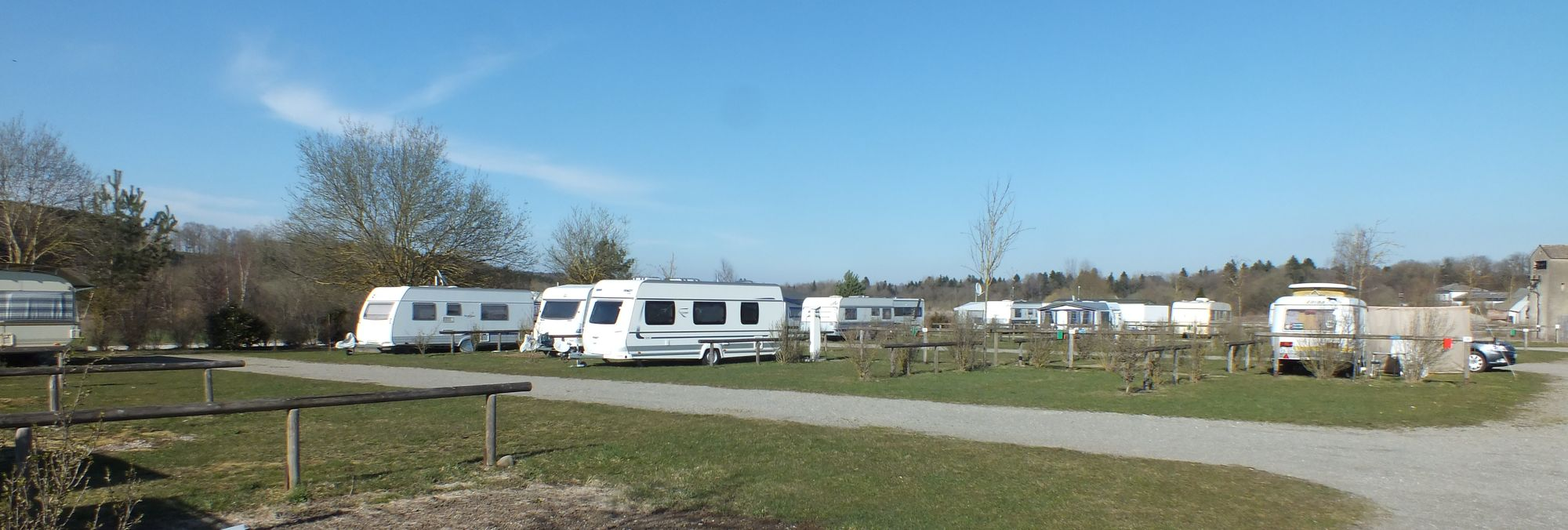 "Seen Camping" campsite at Ablacher See